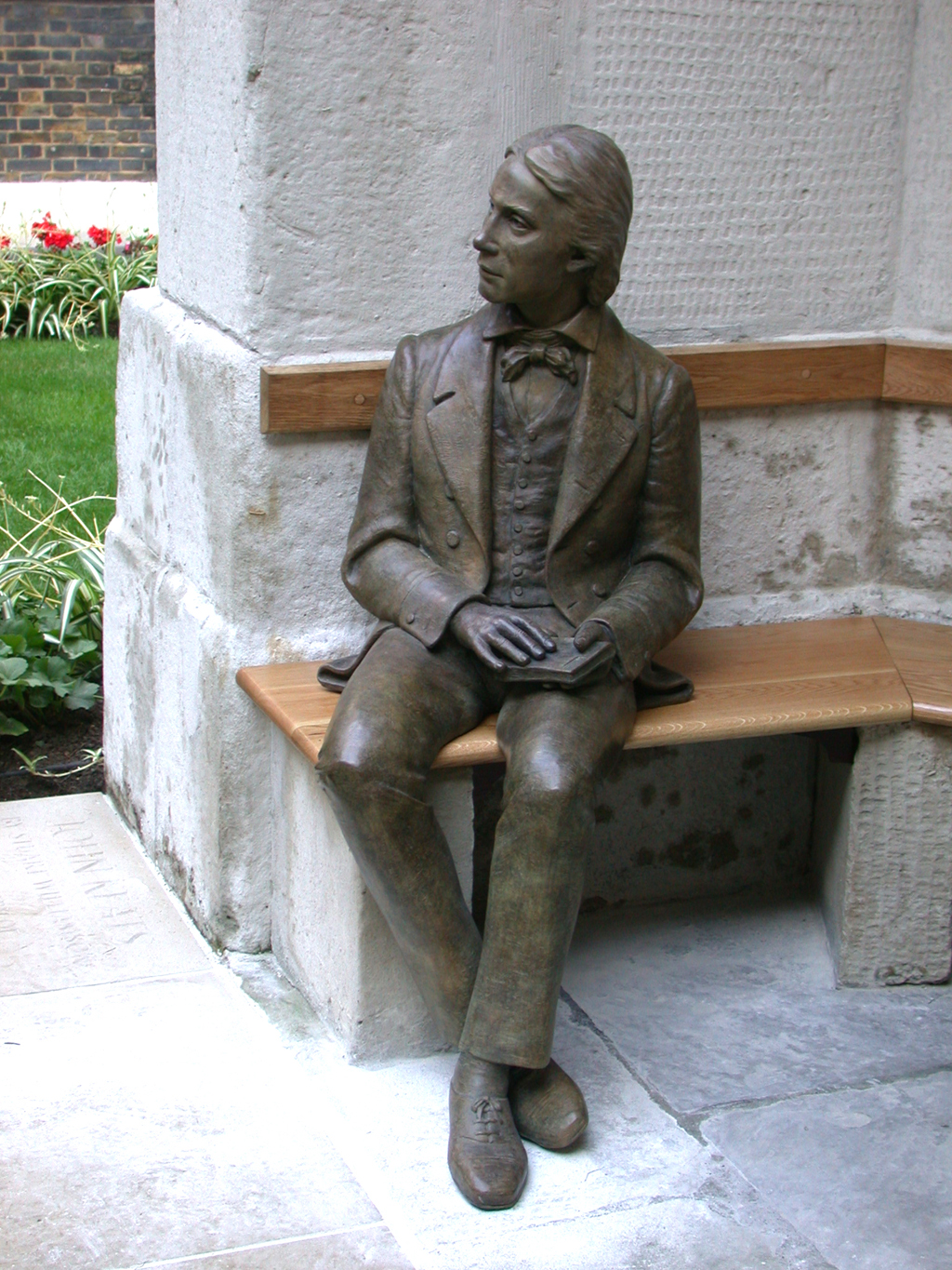 Photograph of pronze statue of poet John Keats, taken by author in situ at Guys Hospital, London on the day of unveiling.